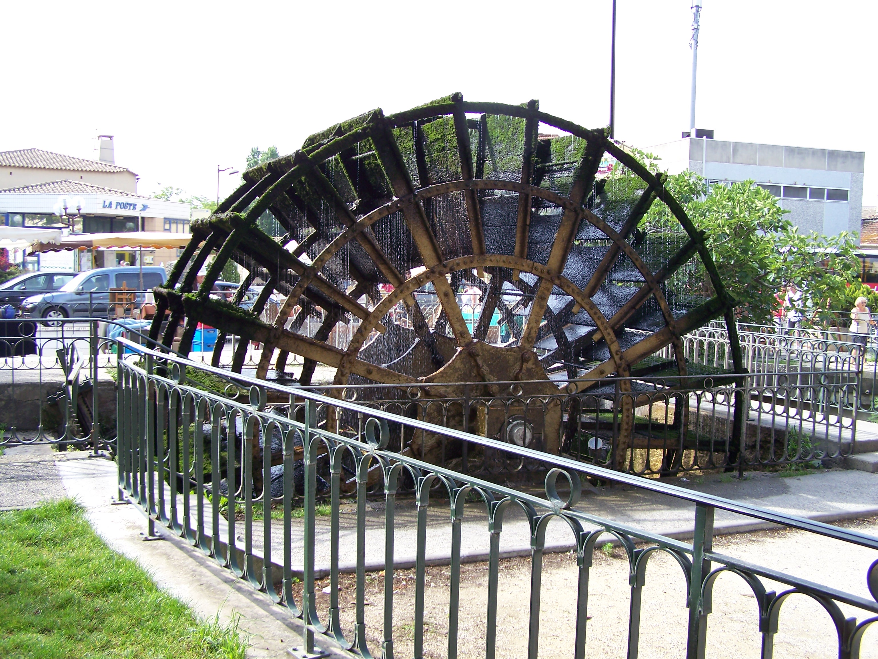 Wasserrad in L'Isle-sur-la-Sorgue